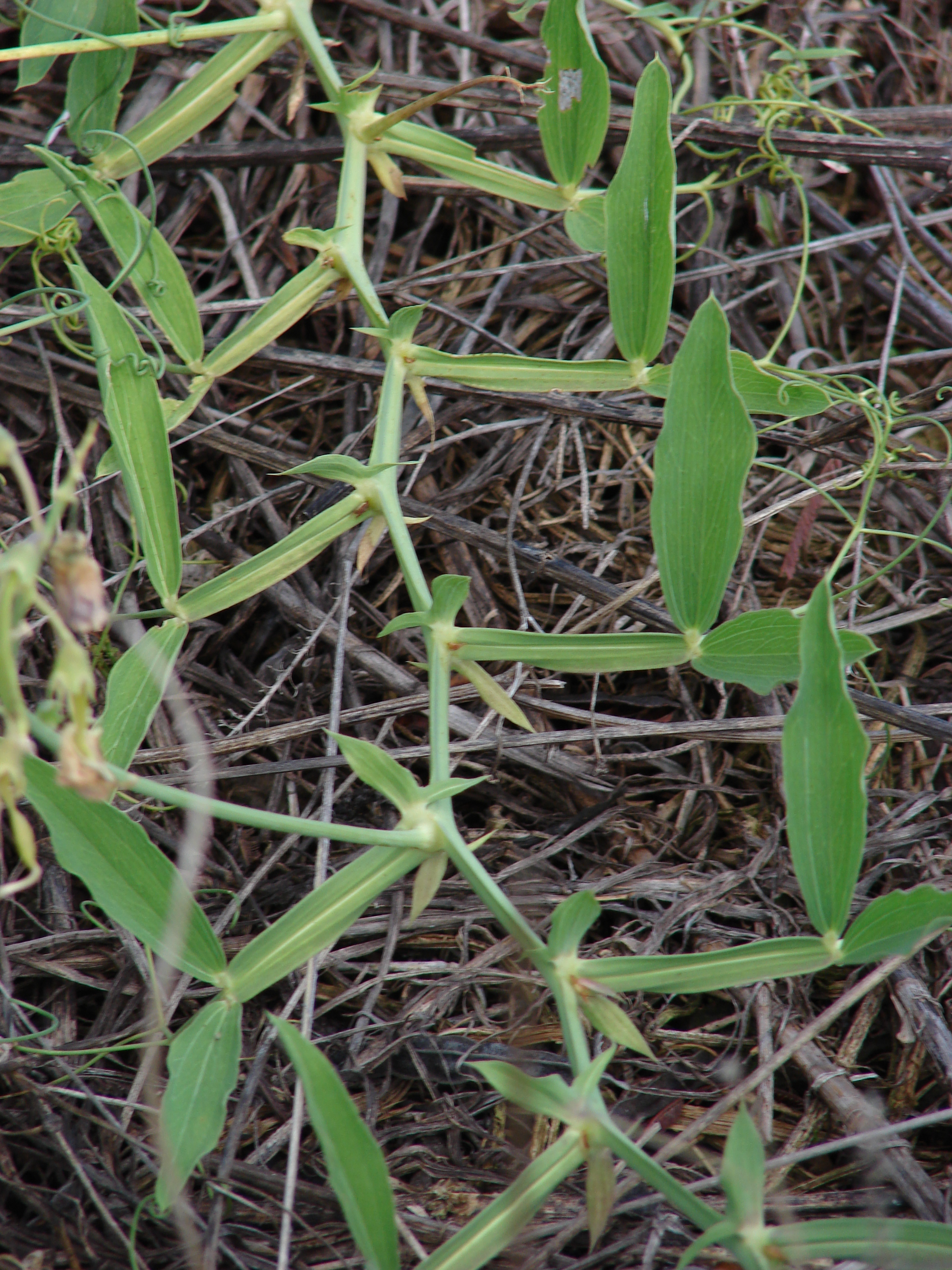 Lathyrus latifolius (stem and leaves). Location: Maui, Kula